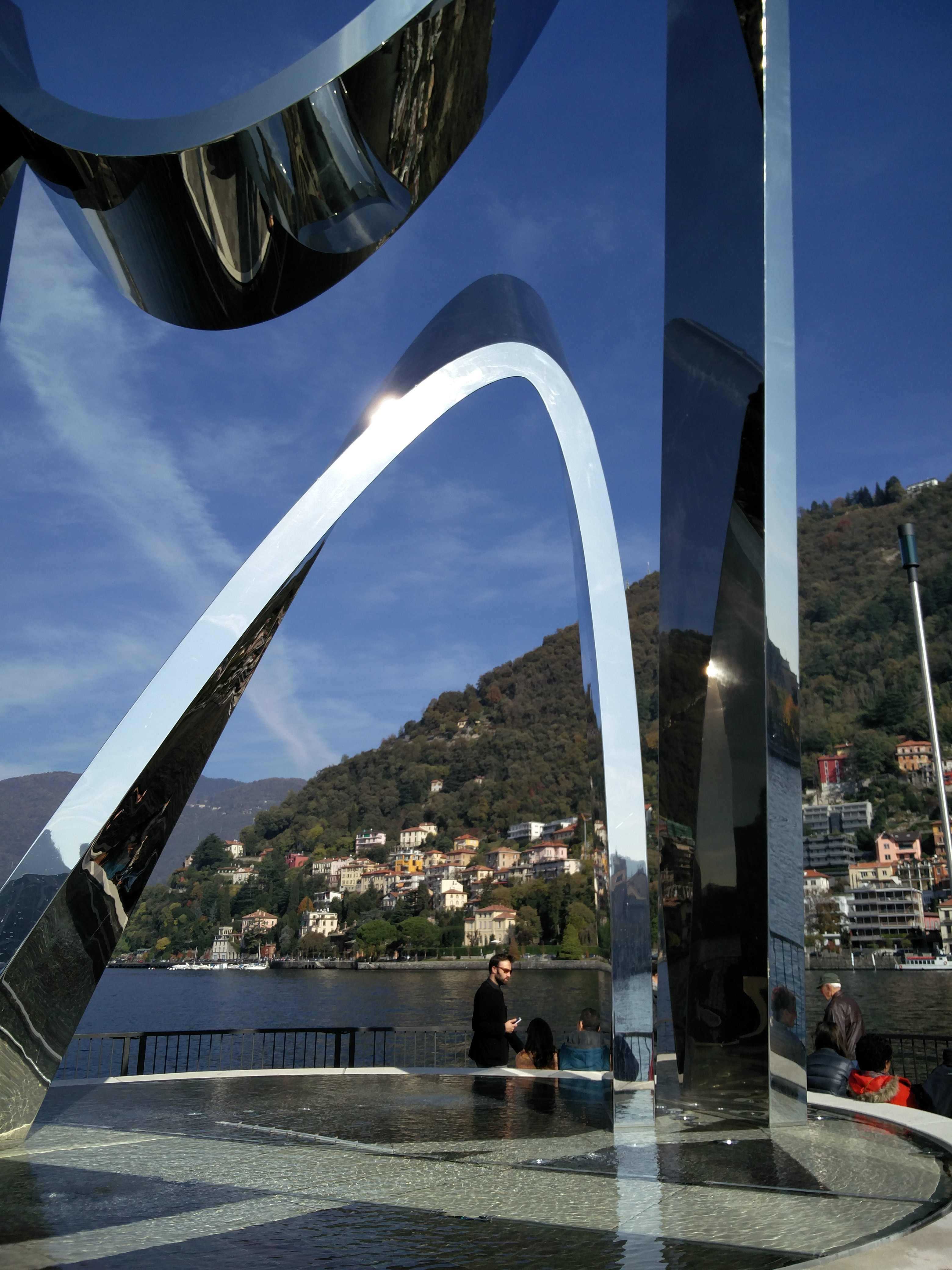 Foreground view